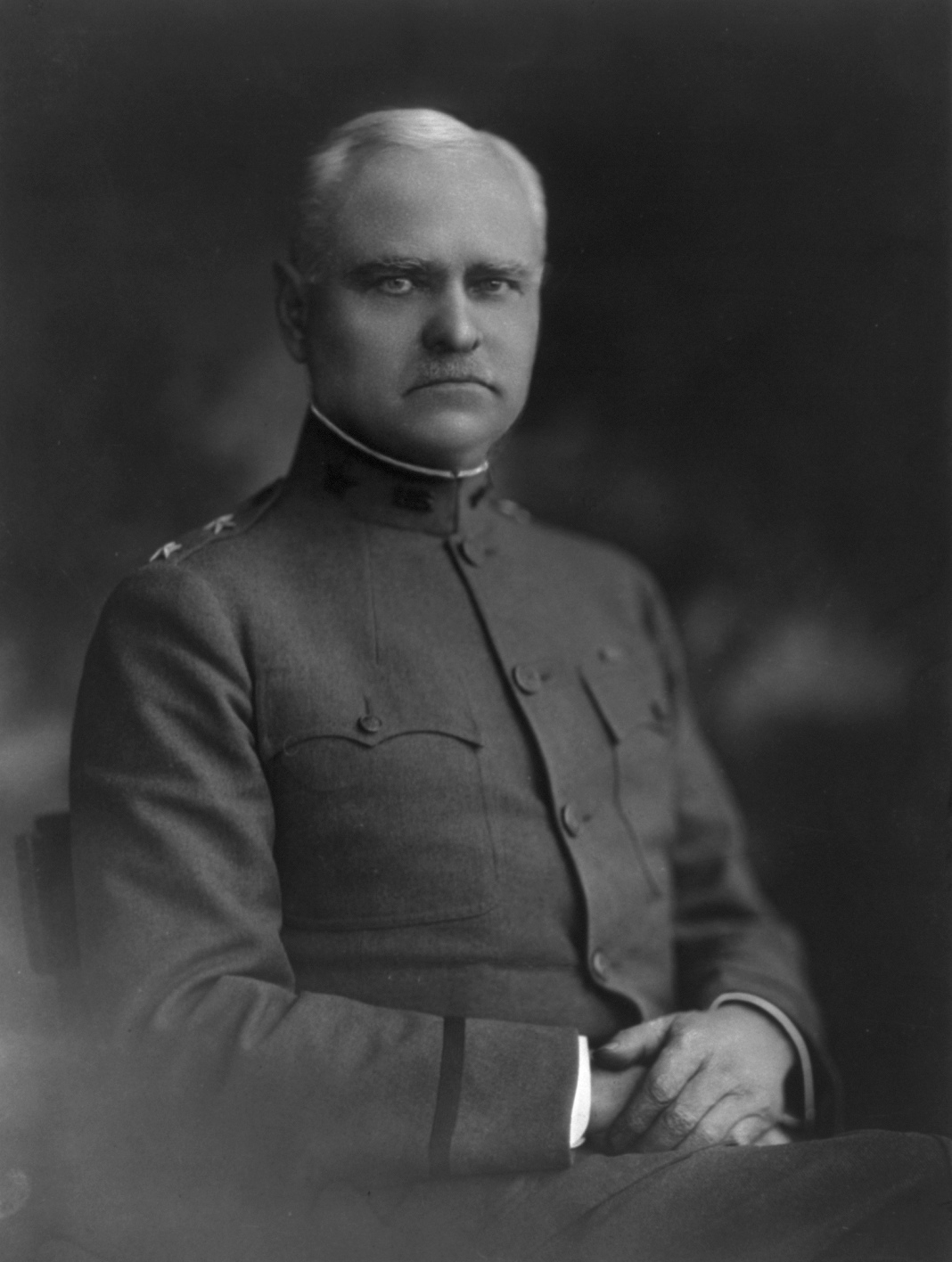 George Washington Goethals.